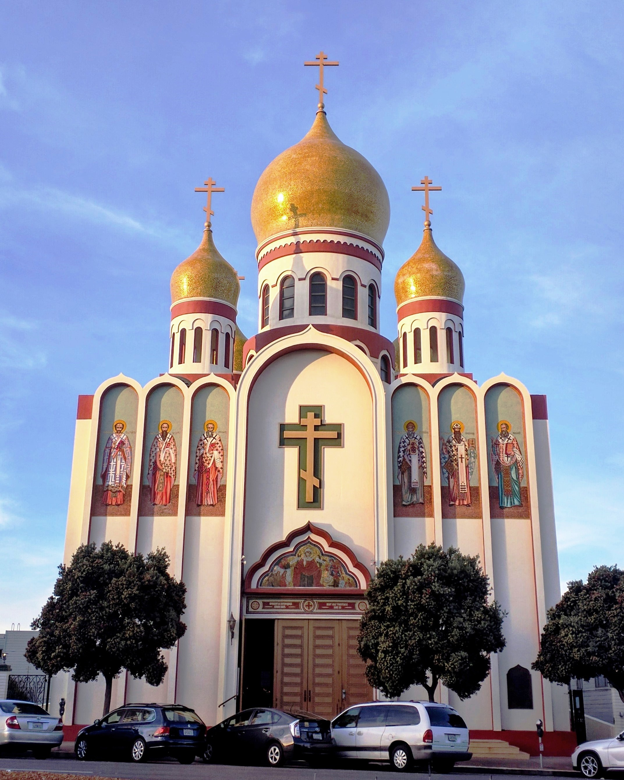 The front of the Holy Virgin Cathedral in San Francisco as seen from Geary Street. Taken in the evening on November 25th, 2018.